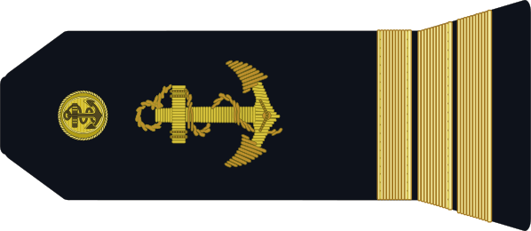 Shoulder strap of the French Navy: lieutenant